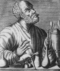 Portrait of Jabir ibn Hayyan